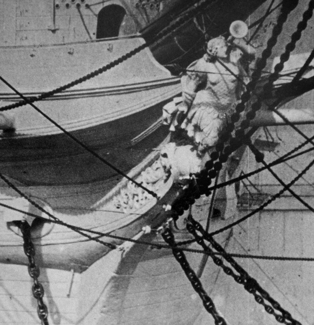 Austrian frigate Novara's figurehead in late 1890s; the ship is already painted in white, therefore out fo service. Aichelburg does not attempt to give any date, in this case.